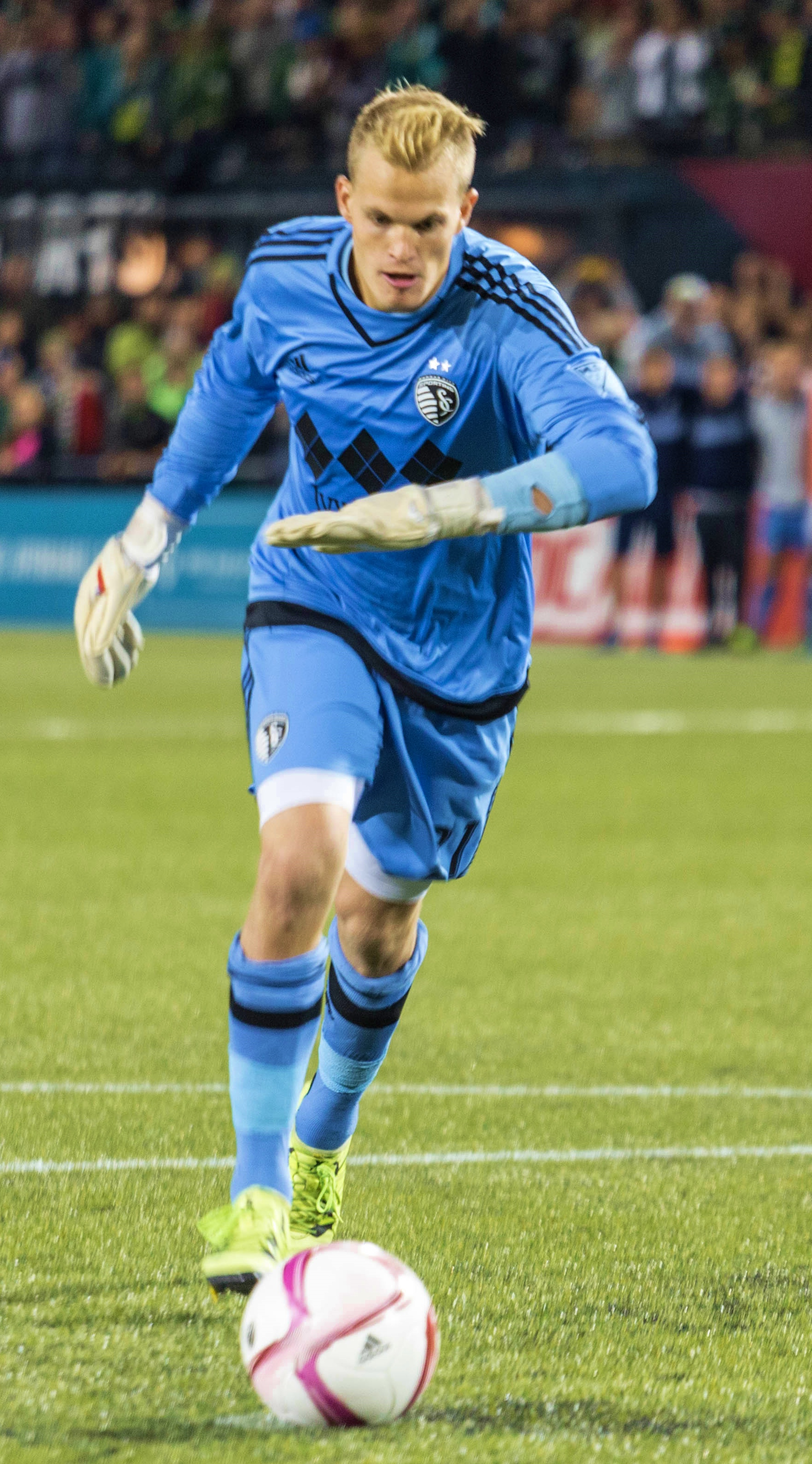 Jon Kempin